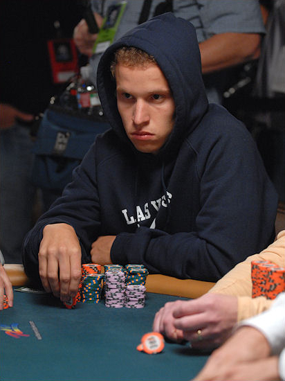 Peter Eastgate playing at the 2008 World Series of Poker